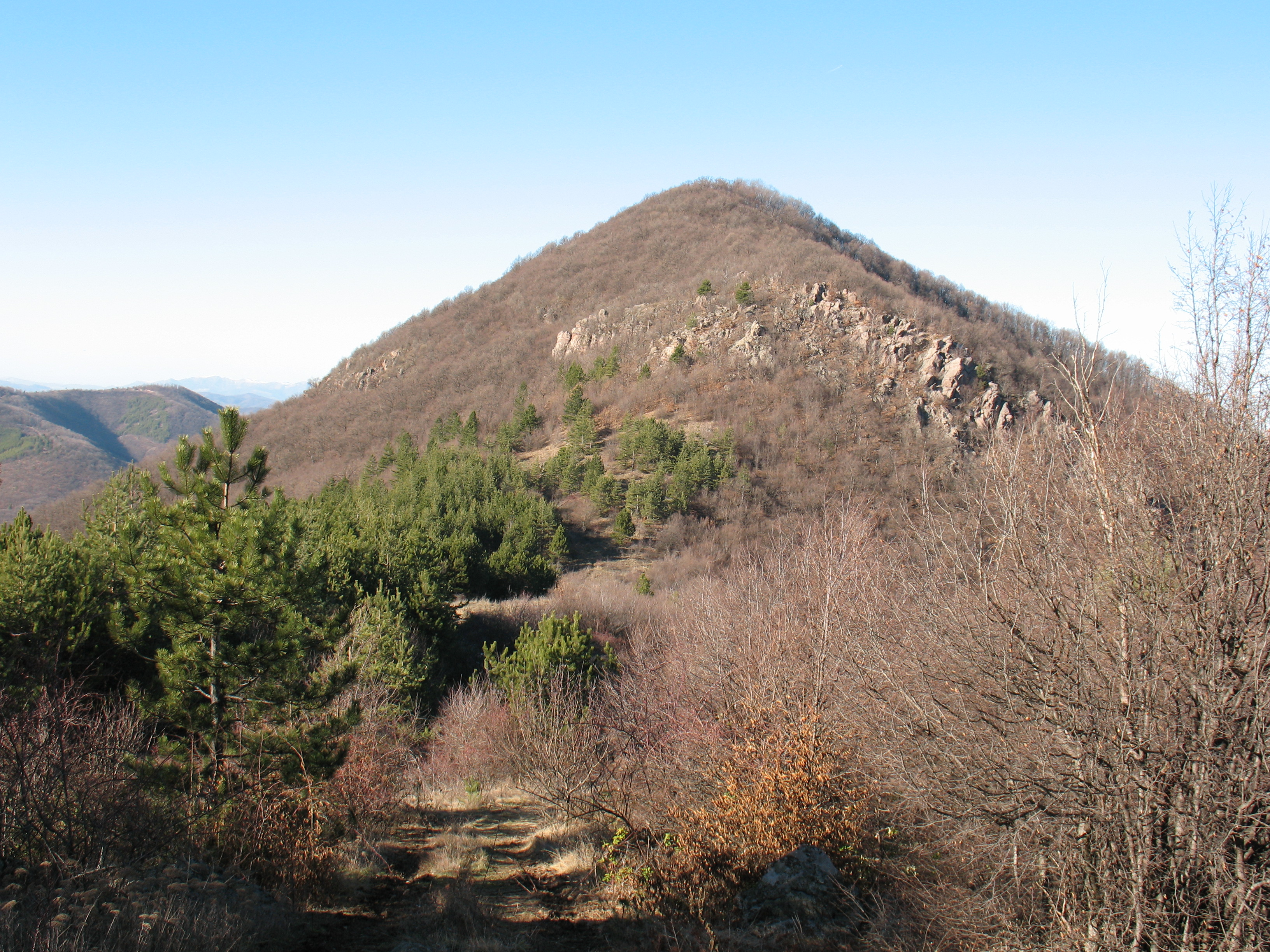 Peak Golyam Borovets near Pravets, Bulgaria, on which ruins of ancient fortress can be seen.